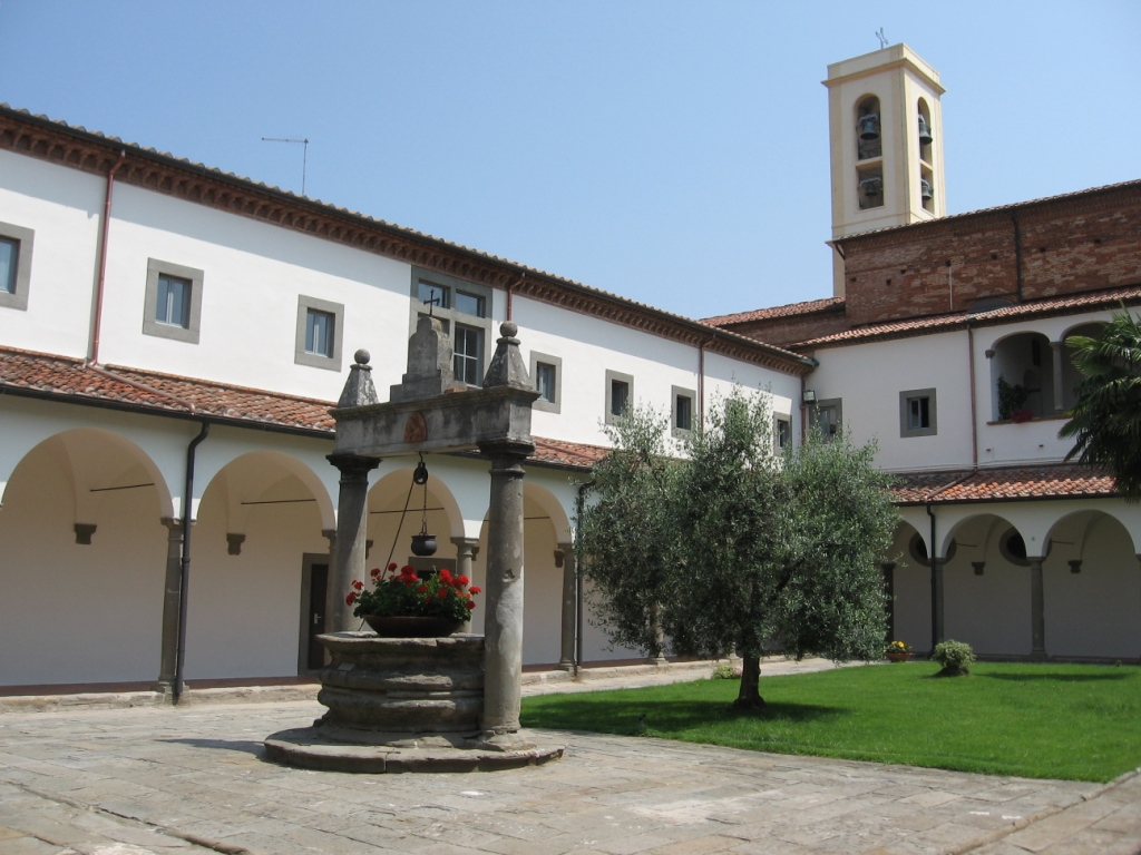 The closter